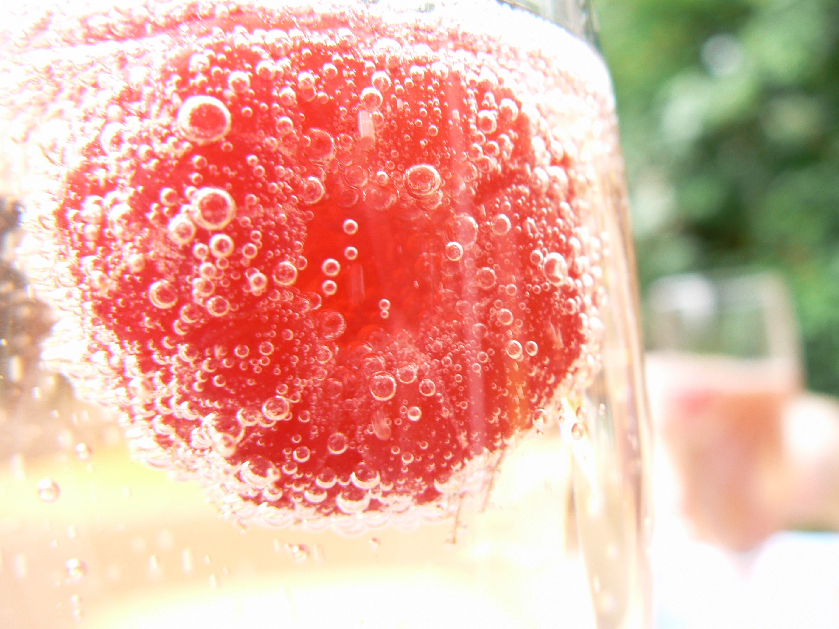 Champagne Cocktail (Raspberry, Pomegranate, Champagne, Glass, Drink, Bubbles, Macro, DoF, C&CMP-focus)